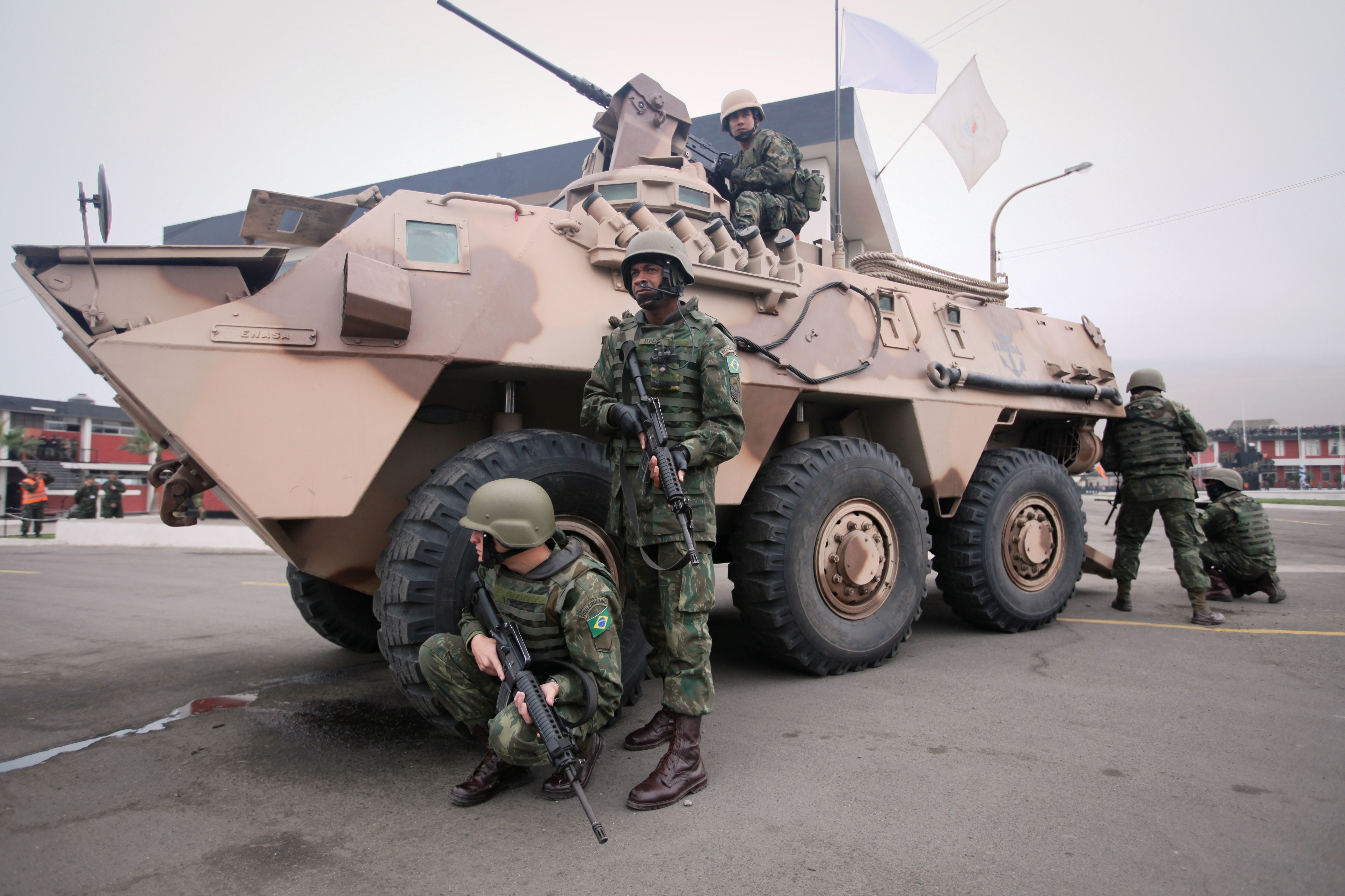 Brazilian naval infantrymen hold security around their Pegaso BMR armoured personnel carrier during a multinational amphibious beach assault training exercise in Ancon, Peru, July 19, 2010. U.S. Marines were deployed in support of operation Partnership of the Americas/Southern Exchange, a combined amphibious exercise with maritime forces from Argentina, Mexico, Peru, Brazil, Uruguay and Colombia.